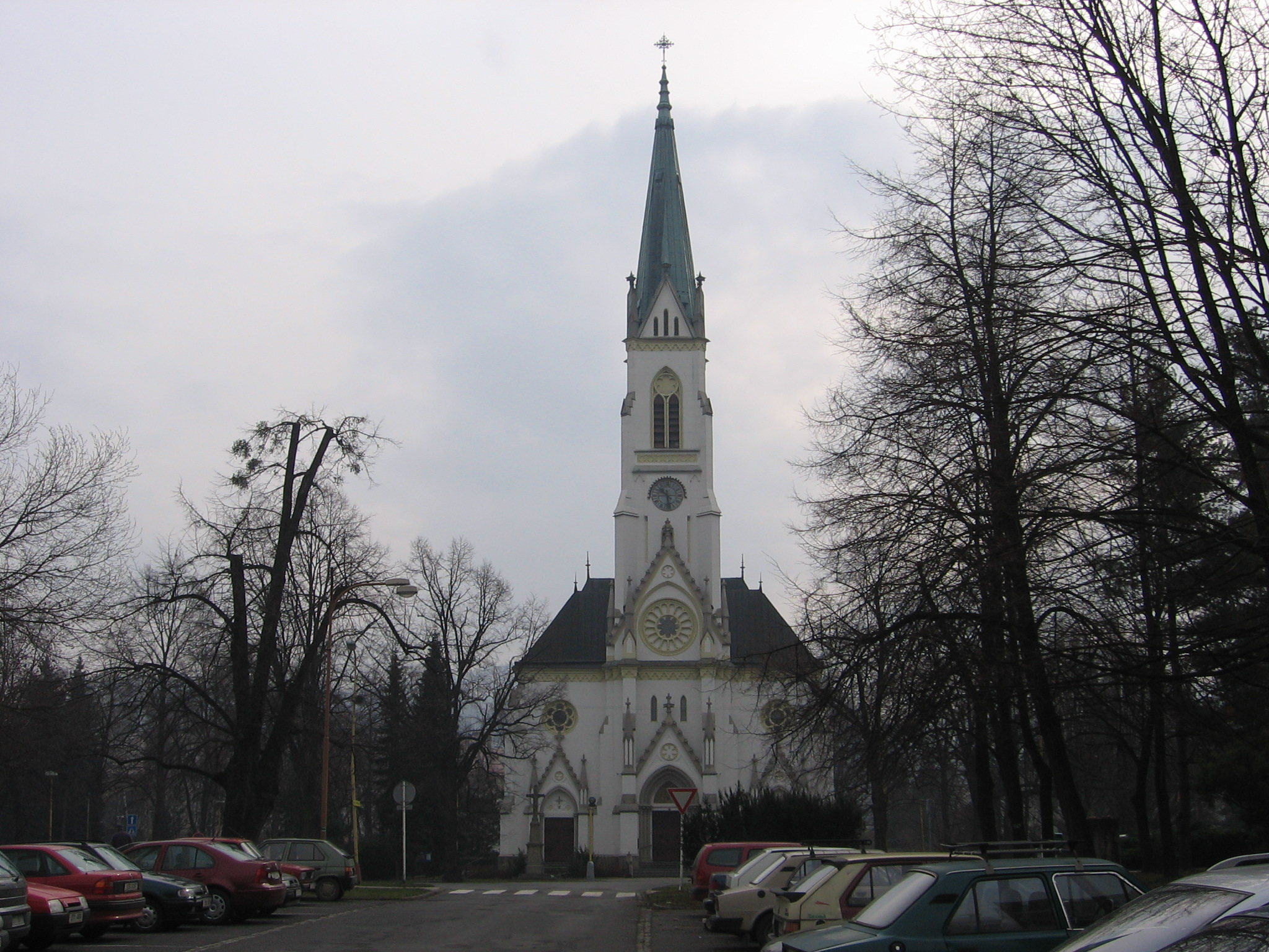 St. Bartolomew Church in Kopřivnice (Czech Republic)